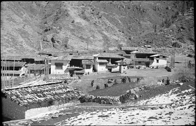 People working in the fields in Upper Yatung showing fields and houses surrounding them. Taken from a nearby hillside